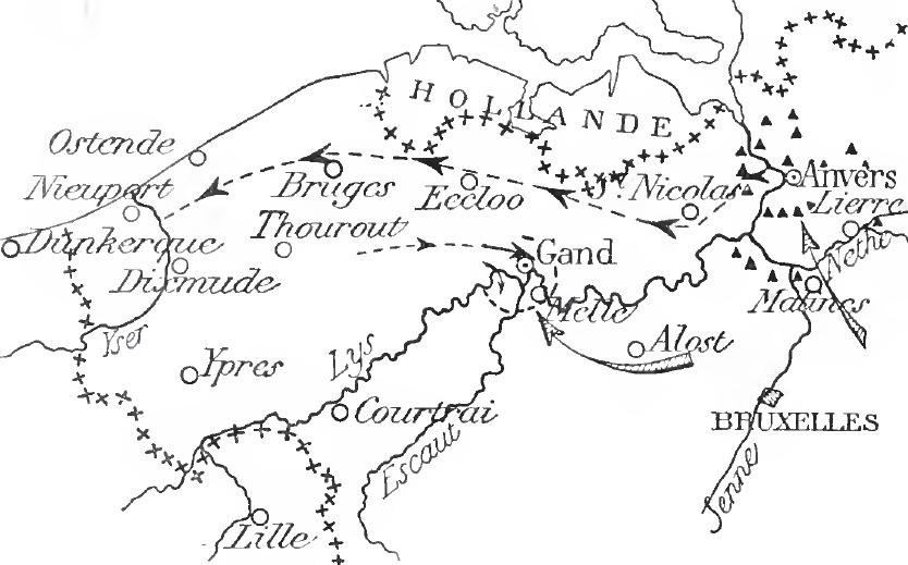 Fall of Antwerp and the Allied retreat along the Belgian coast, 1914